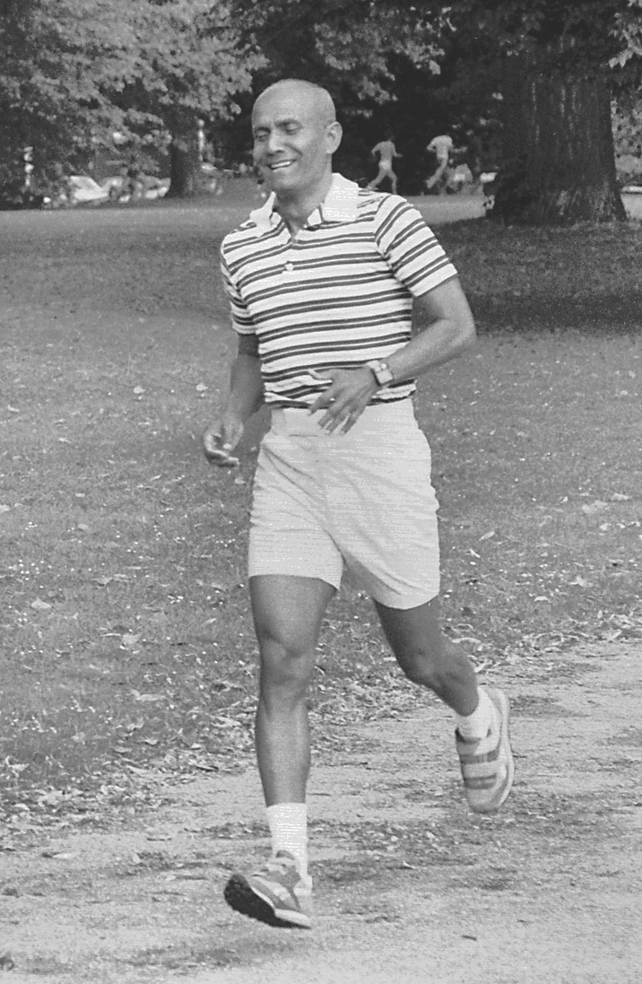 Sri Chinmoy running in Zurich 1980.